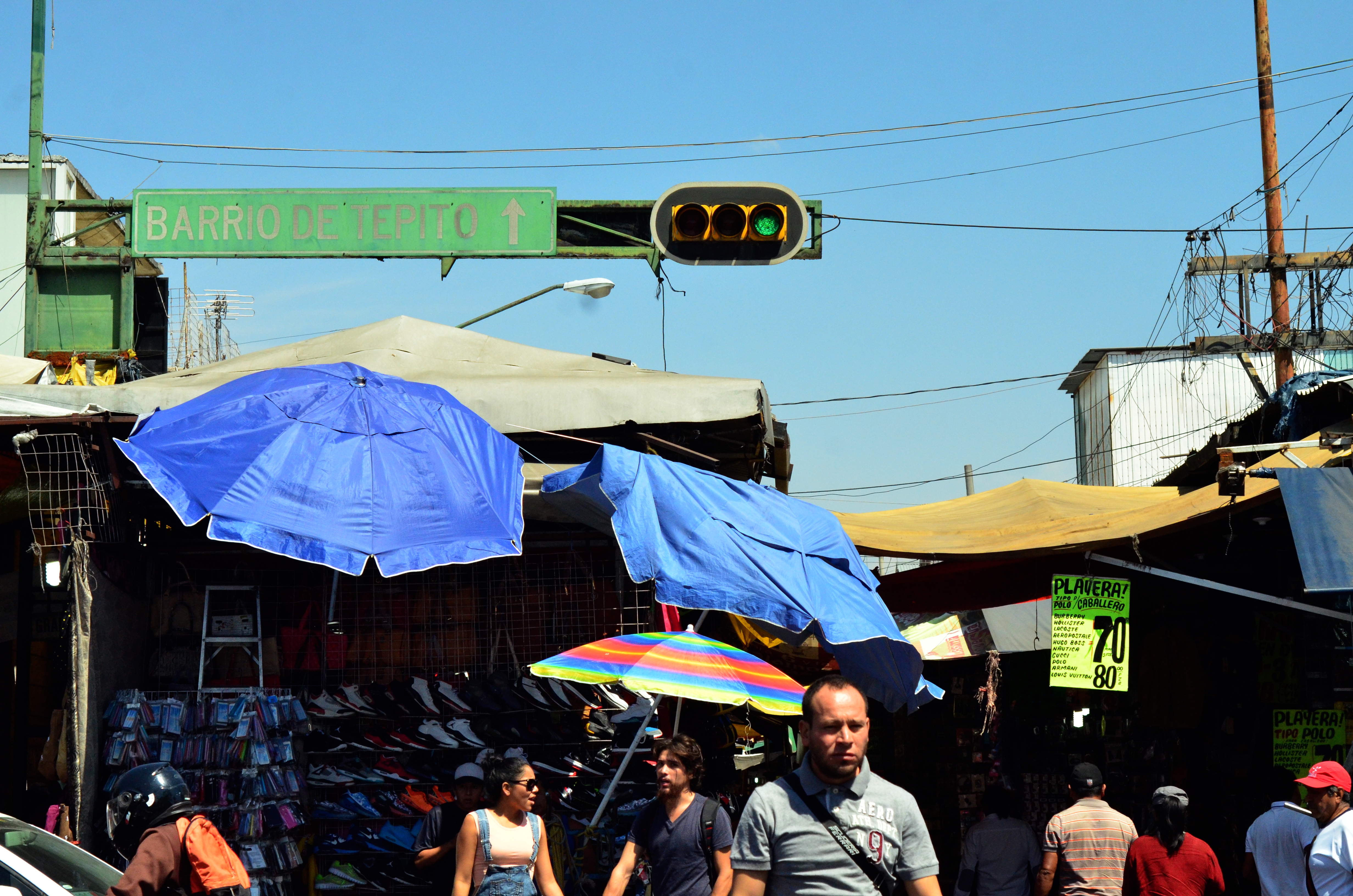 Tepito, a neighborhood in Colonia Morelos in the Cuauhtémoc borough of Mexico City also known as Barrio Bravo de Tepito, is a place in which people can find fayuca (illegal) products and pirate brands.